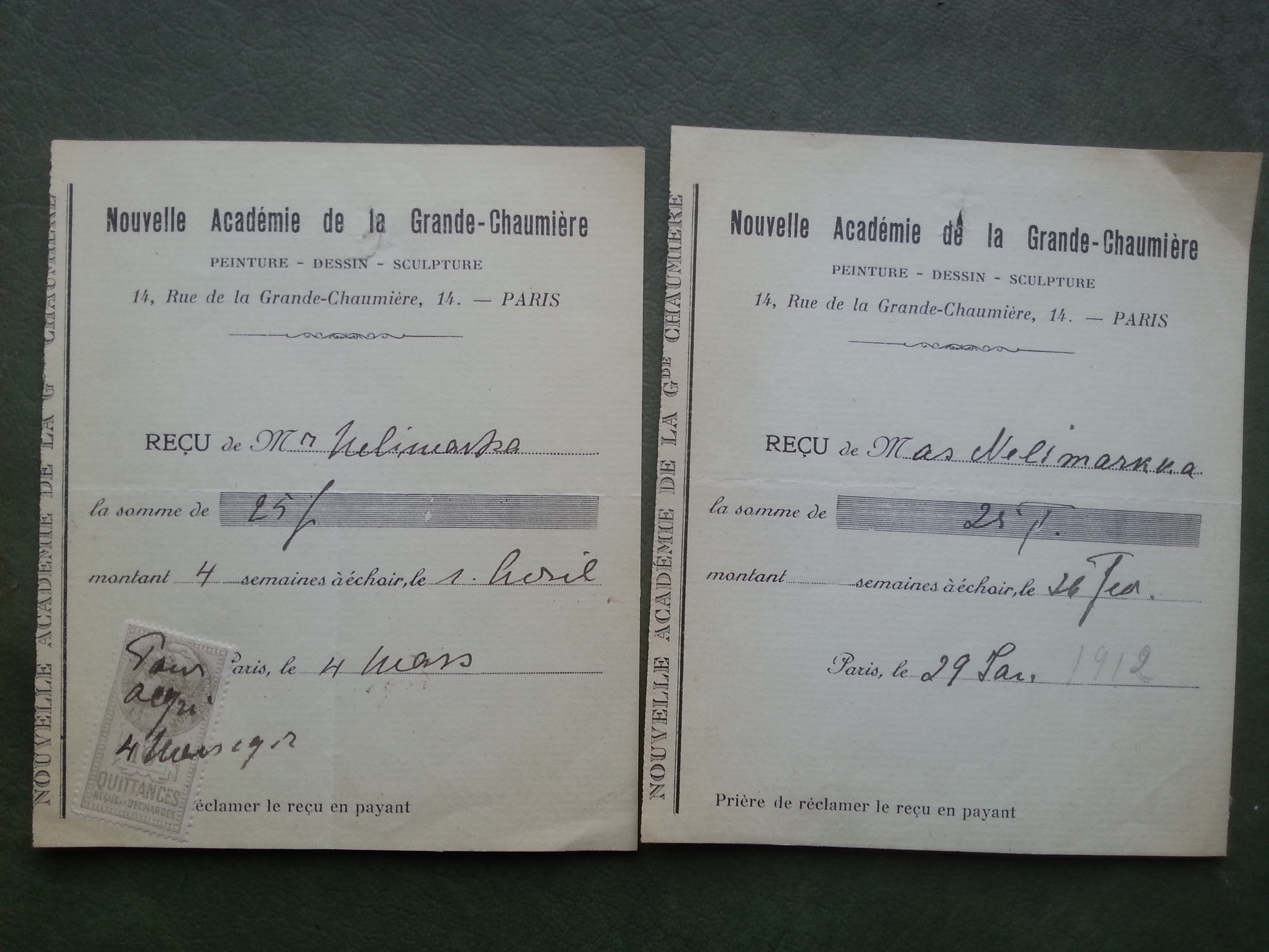 Receipt of Payment by artist Eero Nelimarkka on Education at Nouvelle Academia de la Grande-Chaumiere in 1912.